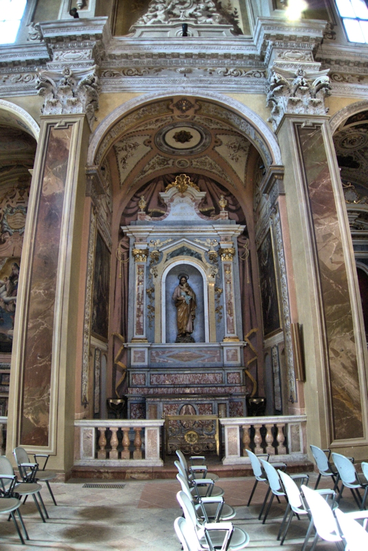 Chapel of St. Joseph